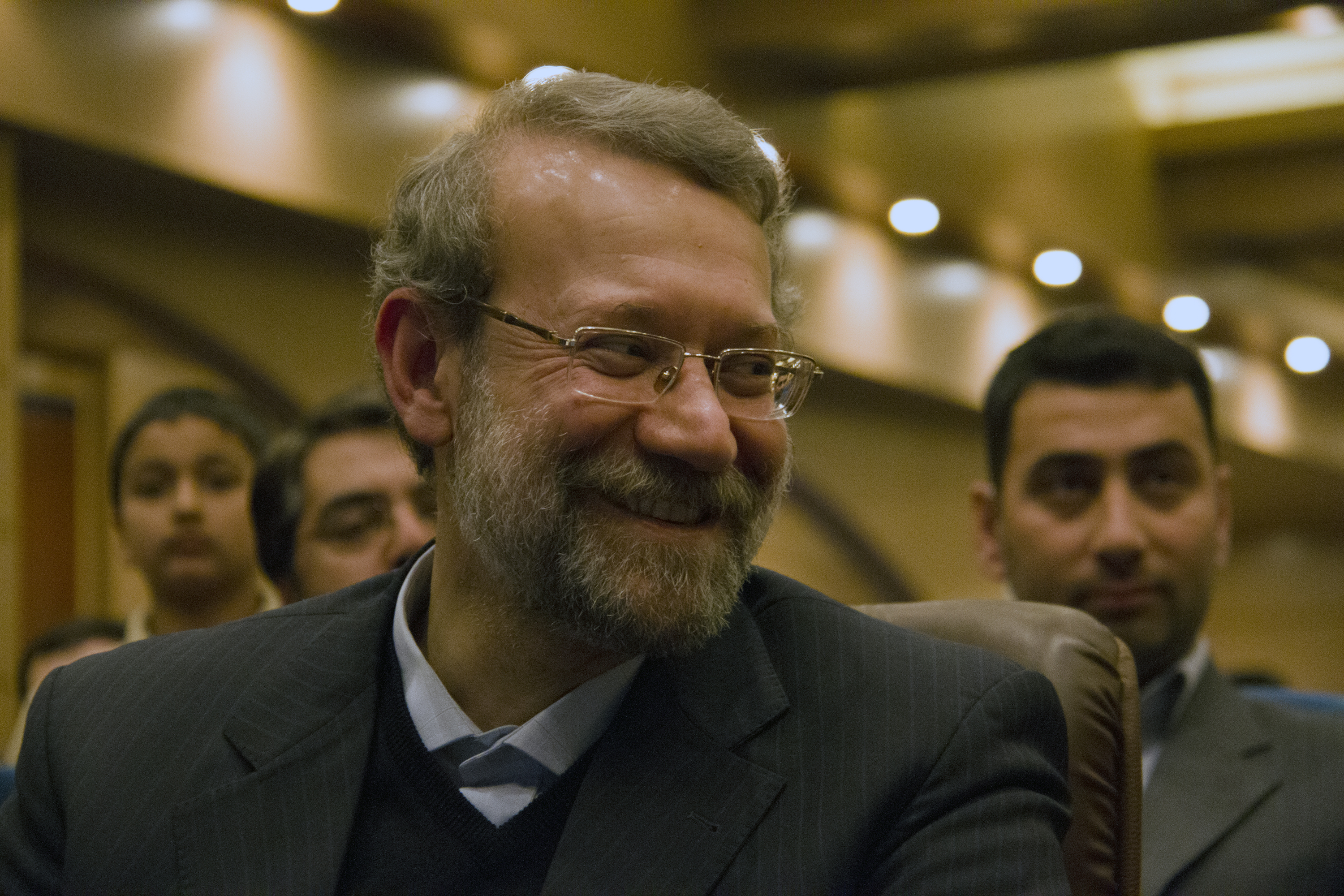 Ali Larijani is an Iranian philosopher, conservative politician and the current chairman of the Parliament of Iran. Larijani was the Secretary of the Supreme National Security Council from 15 August 2005 to 20 October 2007, appointed to the position by President Mahmoud Ahmadinejad, replacing Hassan Rouhani. Acceptance of Larijani's resignation from the secretary position was announced on 20 October 2007 by Gholamhossein Elham, the Iranian government's spokesman, mentioning that his previous resignations were turned down by President Ahmadinejad.